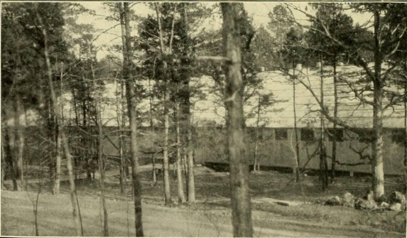 Photo from the yearbook of the Tin Can or Indoor Athletic Center after its completion in 1923 or 1924